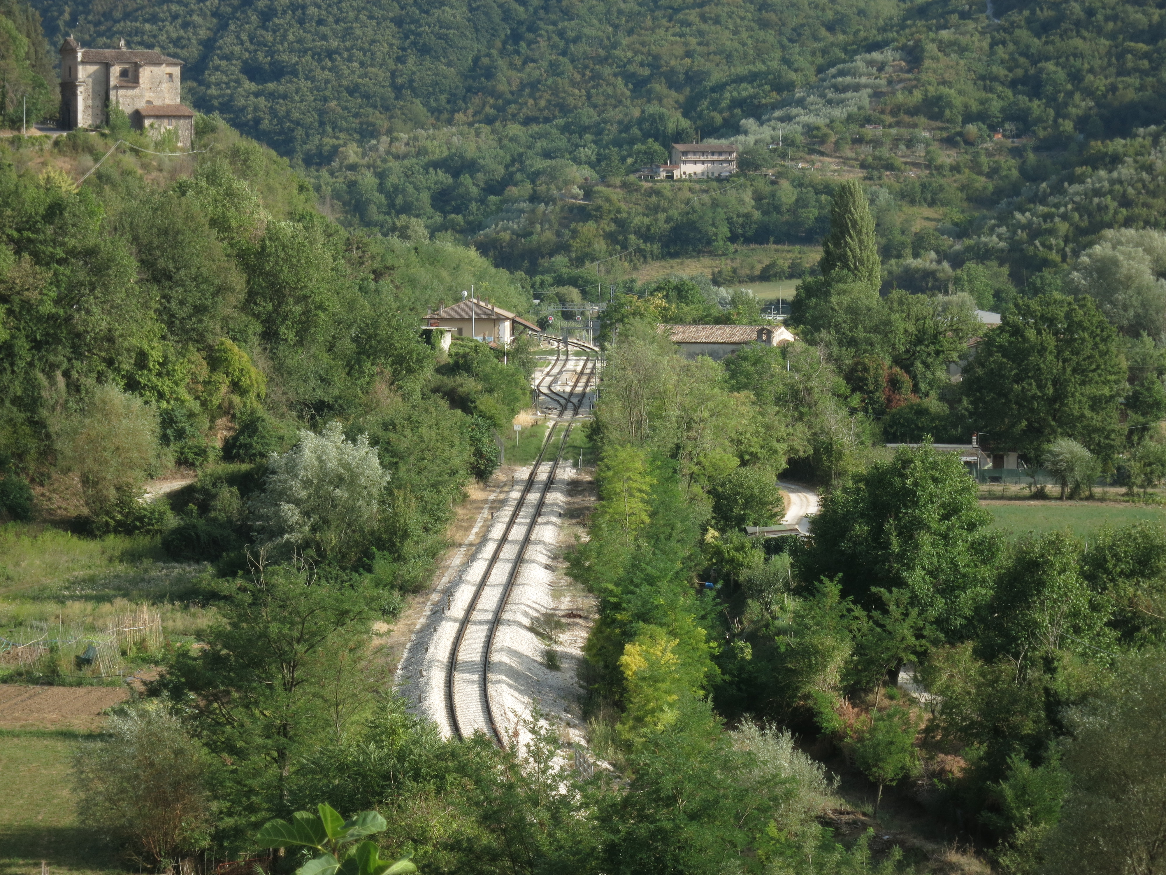 Cittaducale train station (province of Rieti, Lazio, Italy), on the Terni-Rieti-L'Aquila-Sulmona line.